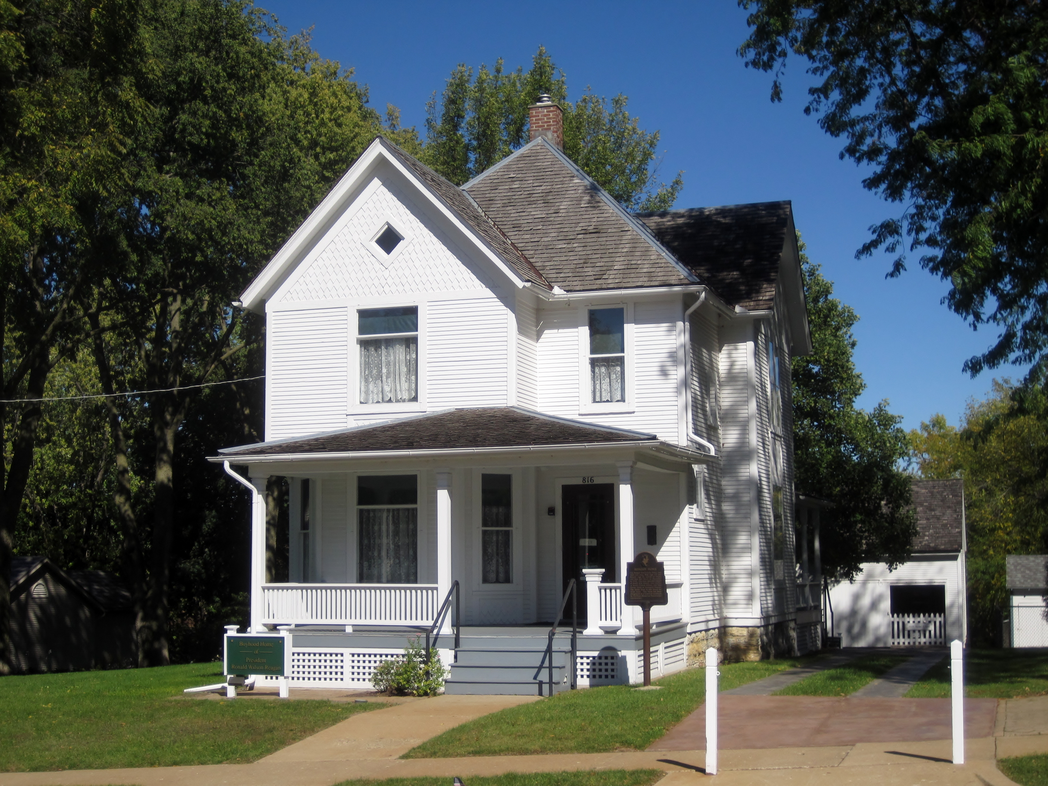 The Ronald Reagan Boyhood Home in Dixon, IL (1891). The 40th President of the United States lived here from 1920 to 1923. Reagan's family relocated often: he was born in Tampico, but also spent time in Galesburg, Monmouth, and Chicago. Ronald's father Jack had a job in the Pitney Shoe Store in Dixon at Commercial & Galena Avenues. Reagan was baptised into the Disciples of Christ faith in 1922 when he was eleven. While living at the house, Reagan once invited several black people turned away from a local hotel to stay with him at his house. The Reagans moved to the other side of the Rock River at 348 W. Everett in 1923. Ronald attended Northside High School on Morgan Street, even though his brother continued to go to the Southside High School. Ronald graduated in 1926, and took his first job as a lifeguard in 1927. He moved with his family in 1928 to 226 Lincolnway Avenue before leaving later that year for Eureka College.